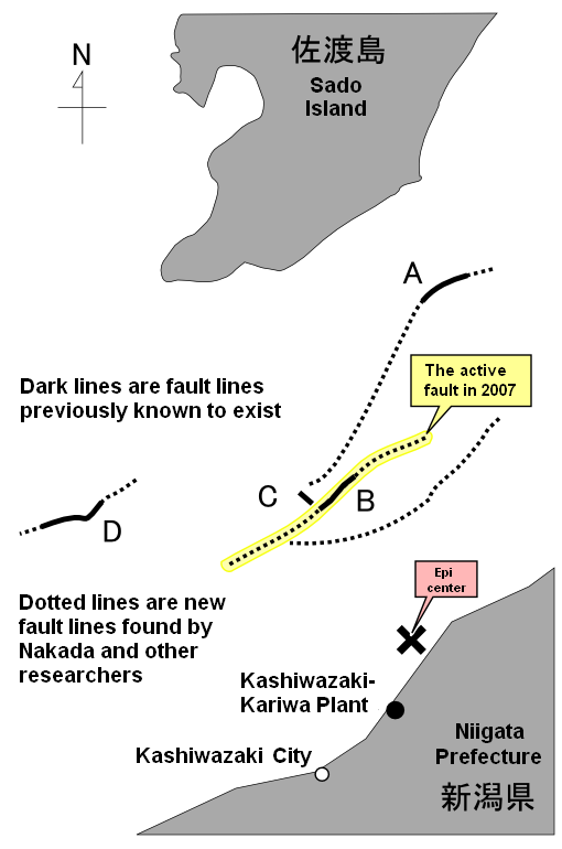 The fault lines and the fault lines that were originally overlooked by Tepco surrounding the Kashiwazaki-Kariwa Nuclear Power Plant